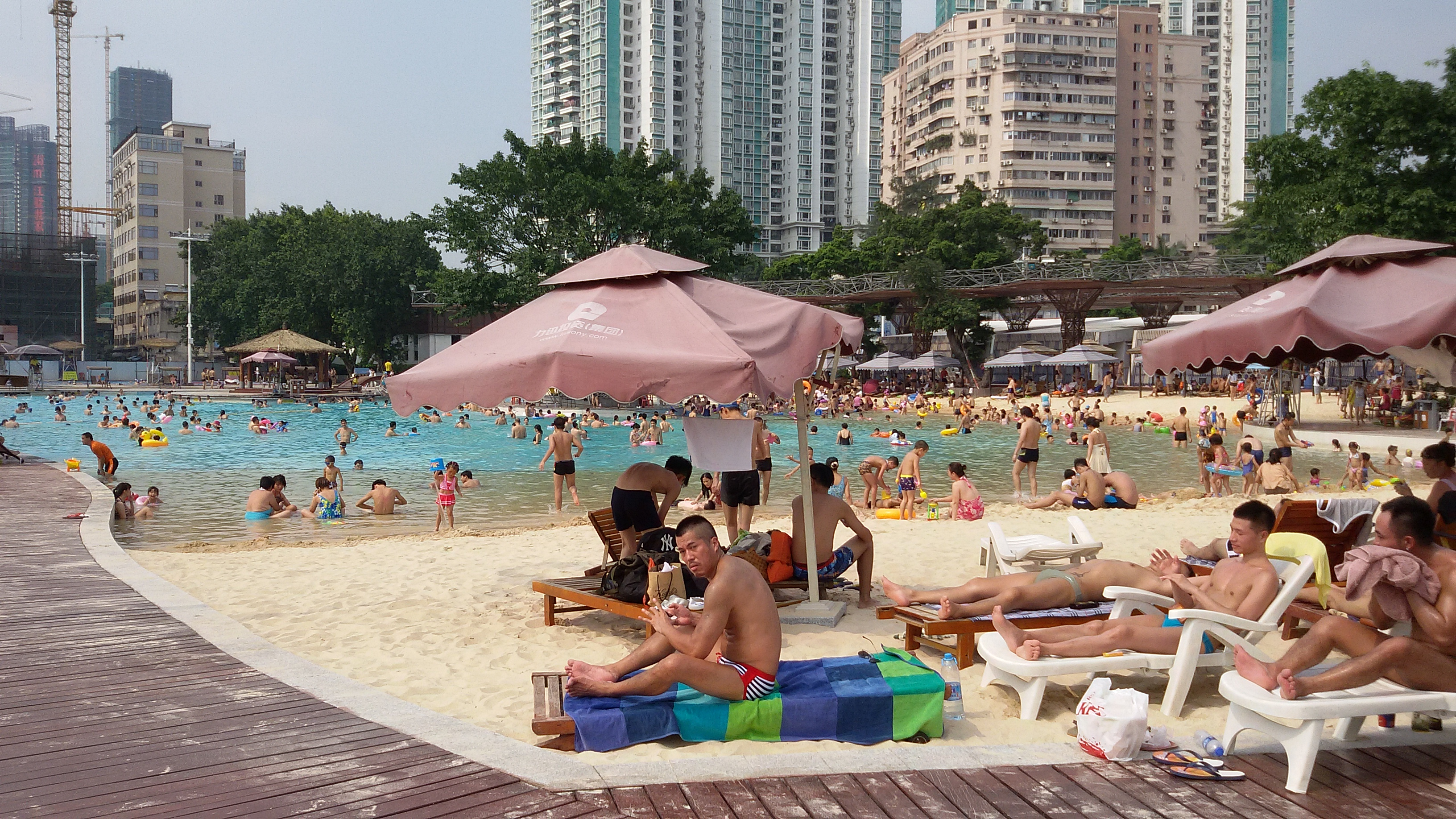 SaiGaau Swimming Pool